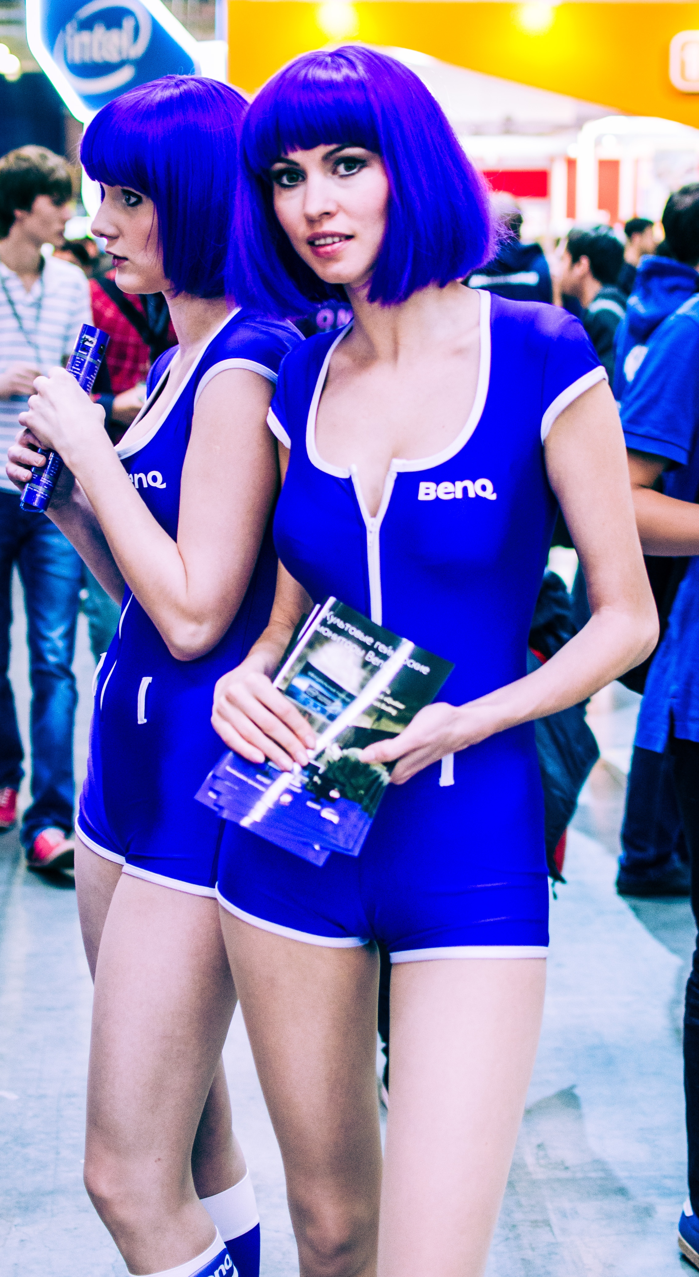 Taken on October 4, 2012 Nikon D5100